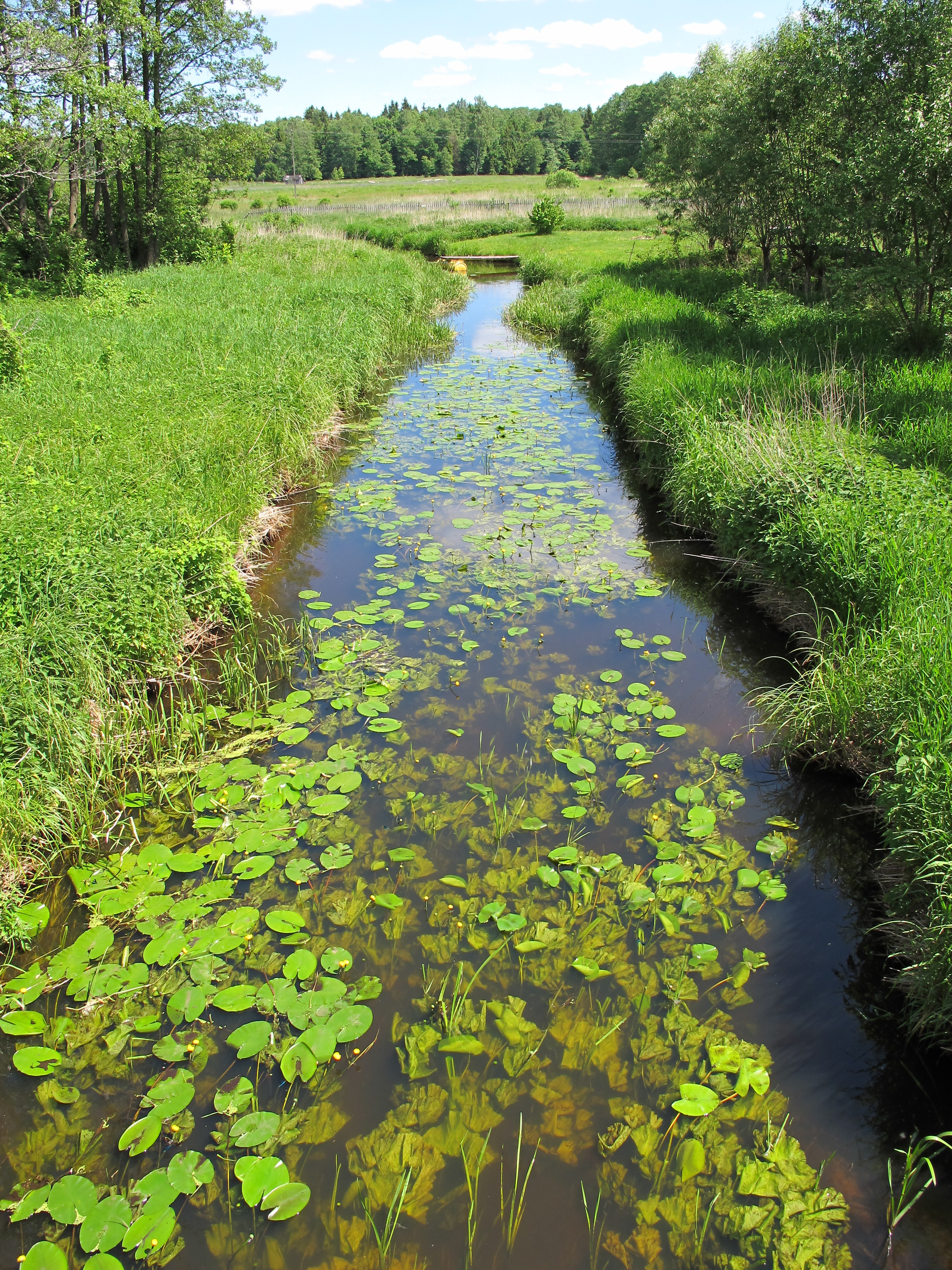 View from a bridge over Płoska river near the Zajma village, gm. Michałowo, podlaskie, Poland